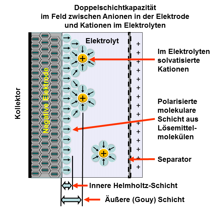 Prinzipdarstellung der Ladungen an einer Helmholtz-Doppelschicht